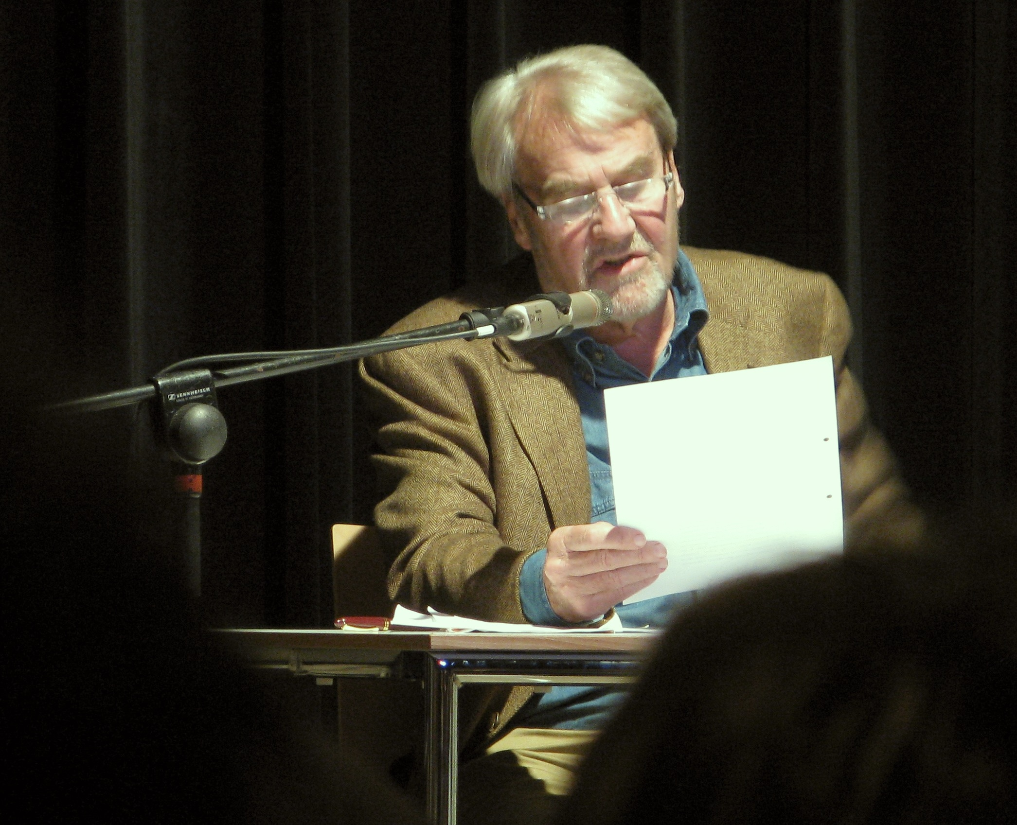 German journalist, author and filmmaker Gerd Ruge reads from his book about Russia.